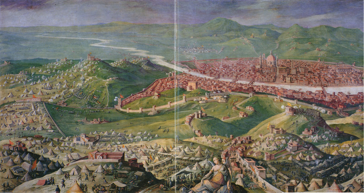 1530 Siege of Florence.